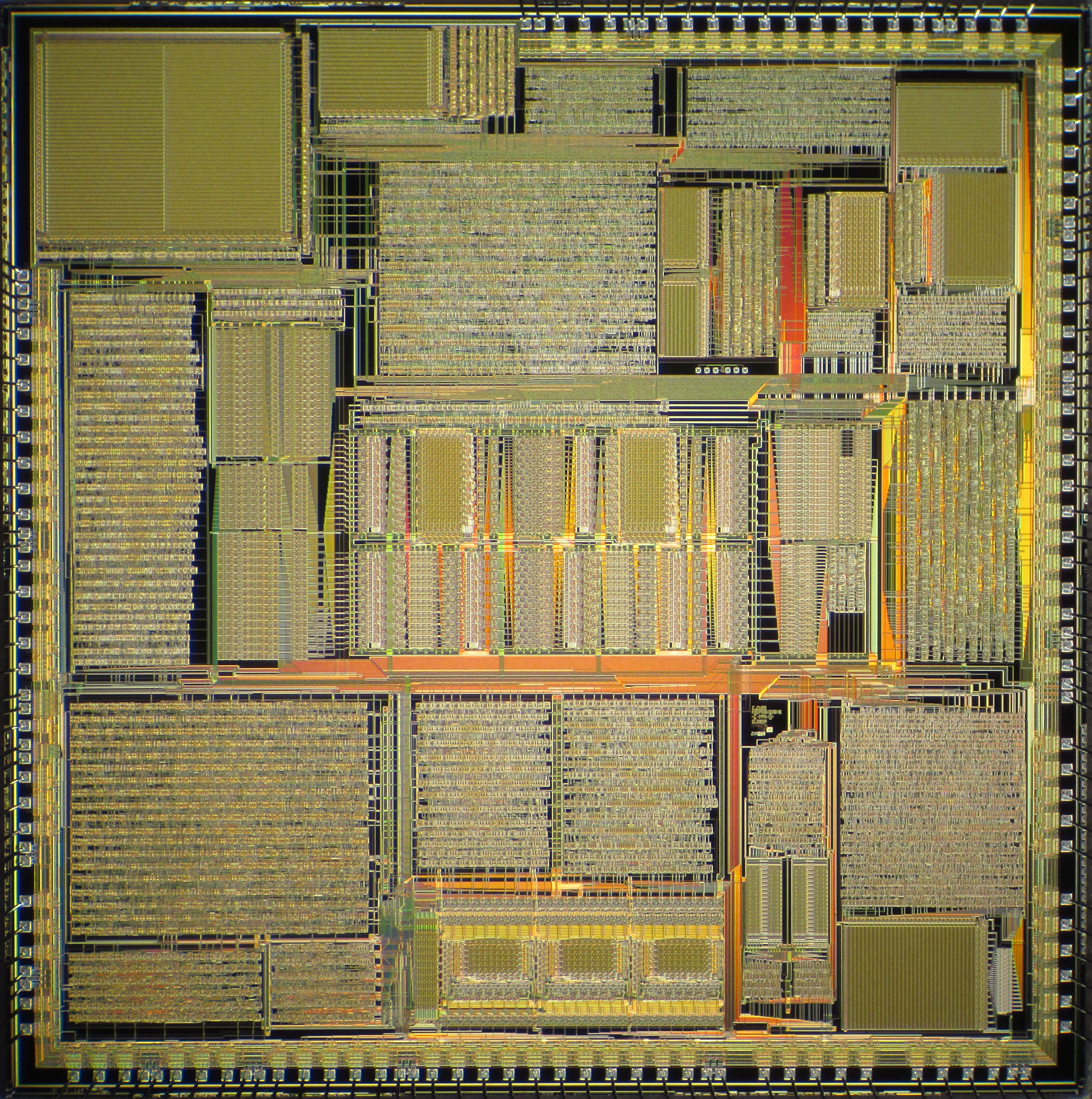 Die shot of C-Cube CL550 JPEG codec.